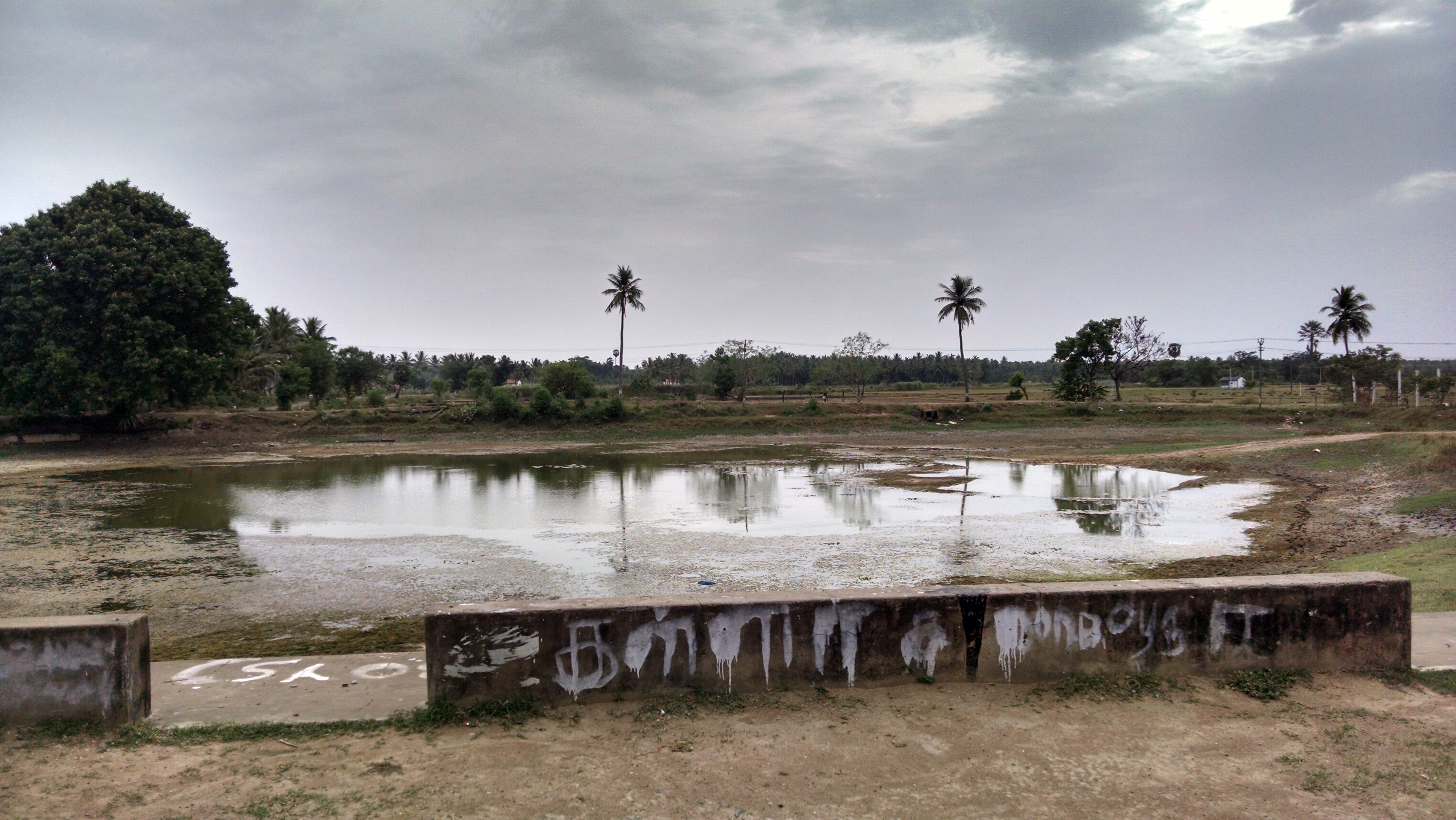 PeikkarumbankottaiHDR2.jpg